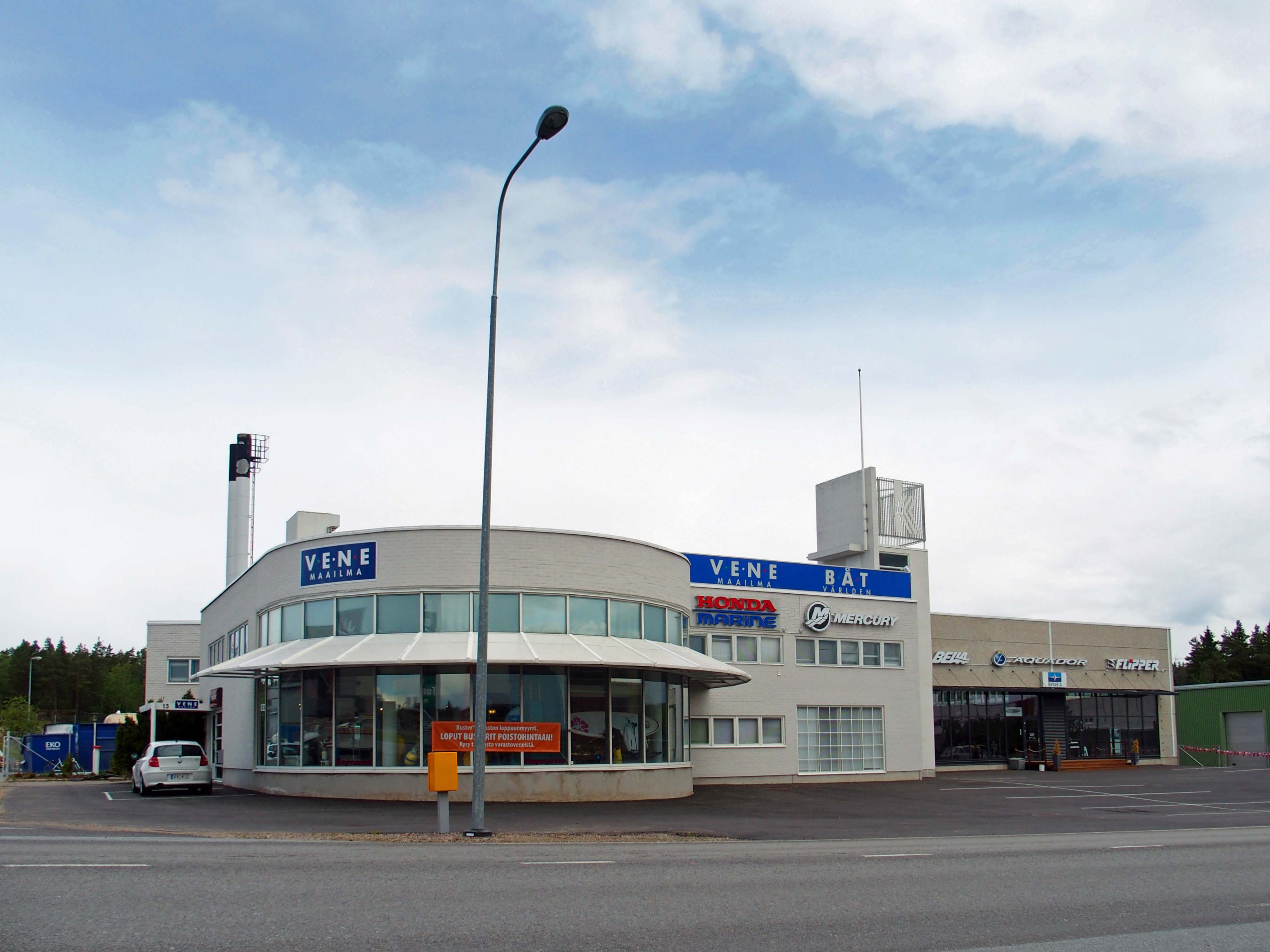 Architect Ola Laiho, 1984.